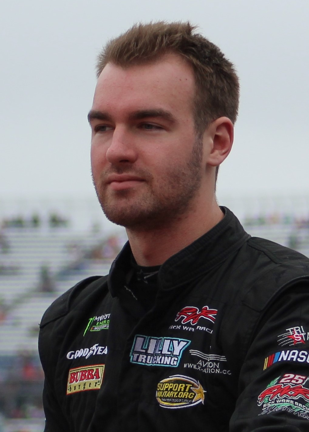 Cody Ware and Corey LaJoie at Dover International Speedway in 2018